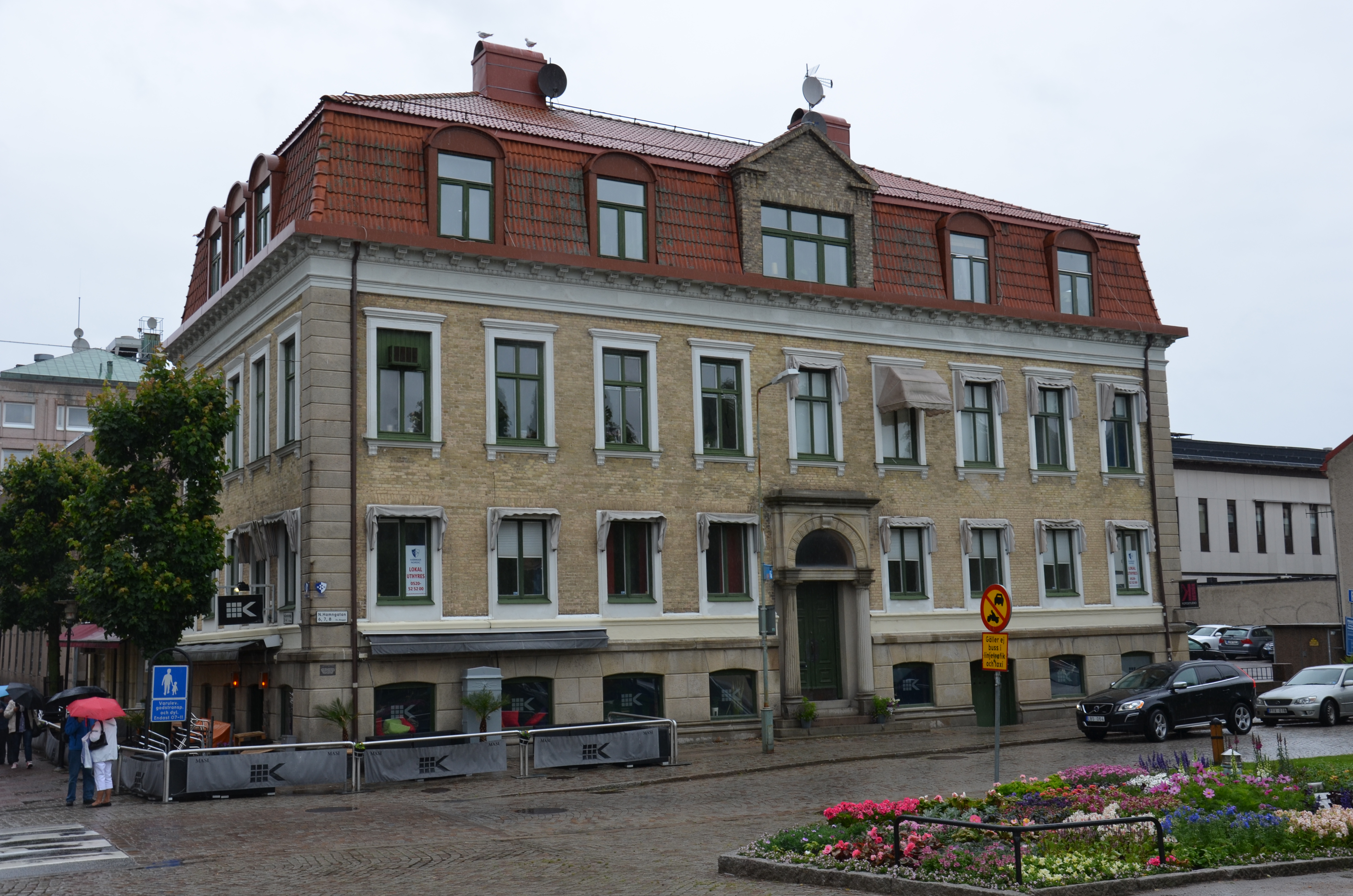 Kullgrenska huset i Uddevalla, i kvarteret Bagge, vid Bäveån och Järnbron.(hörnet Norra Hamnhatan / Norra Drottninggatan) Huset byggdes som bostad och kontor under 1860-talet av Granitaktiebolaget C A Kullgrens Enka.